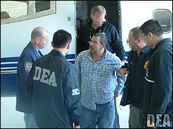 Diego Fernando Murillo (Don Berna), colombian drug lord.